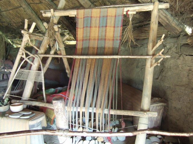 "Iron-age" loom, Castell Henllys The reconstruction of the iron-age village at Castell Henllys extends to the interior of the roundhouses which feature all manner of domestic implements and crafts as they might have been at that time. This wooden loom with pebble weights to keep the yarn taut is used in craftwork demonstration at the site.